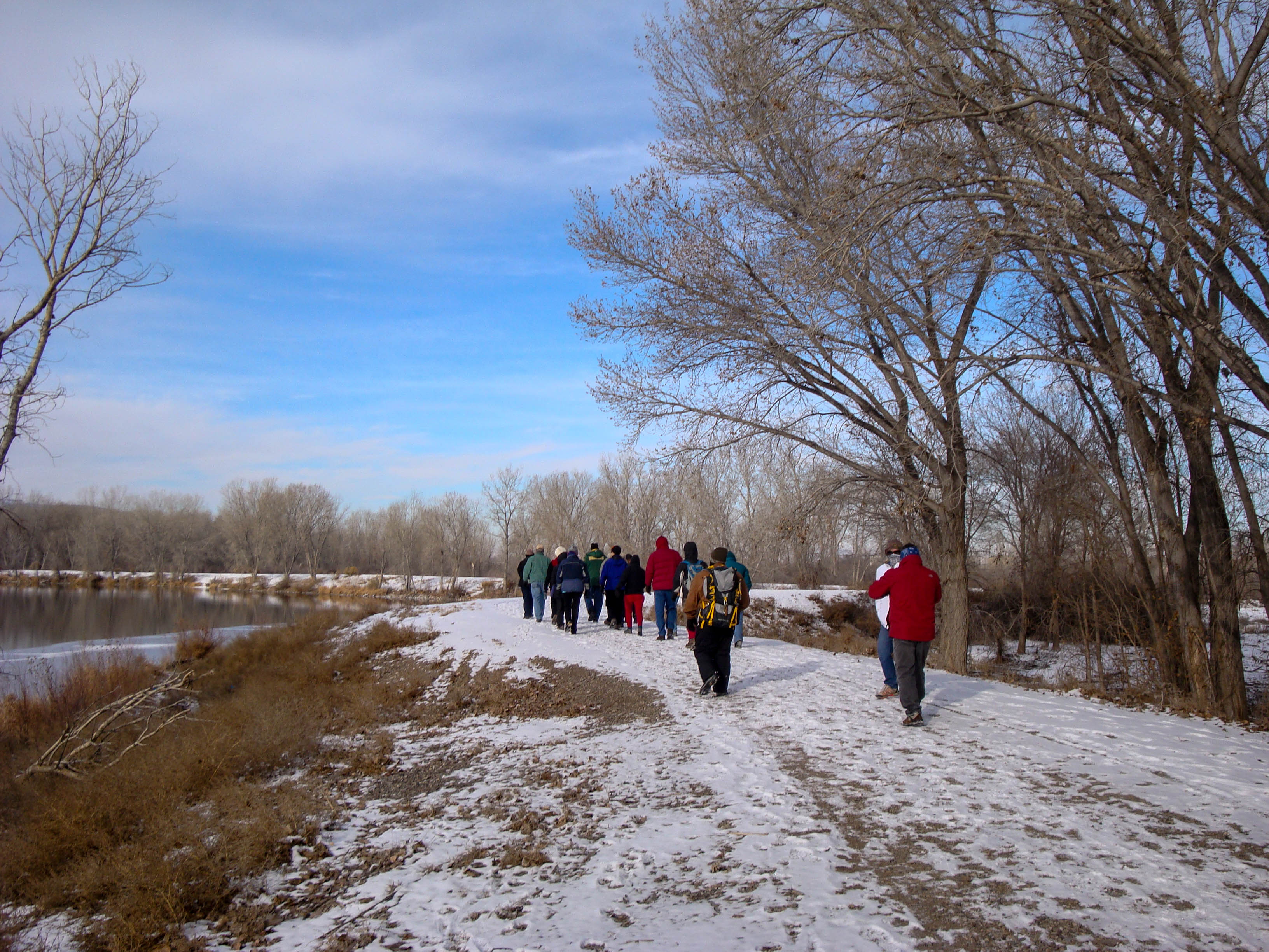 Colorado River Park First Day Hike in Grand Junction, CO